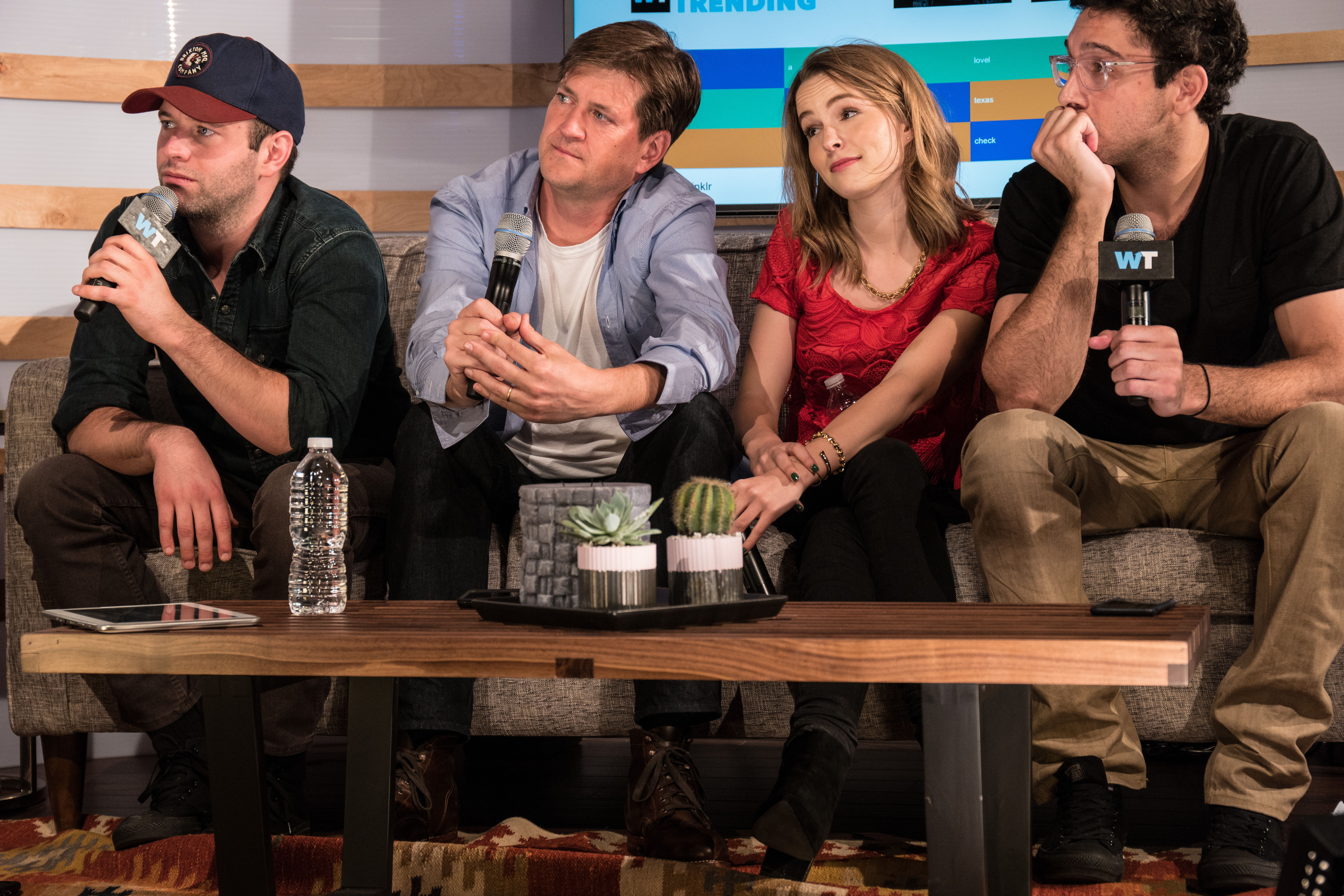 Brent Morin, Bill Lawrence, Bridgit Mendler, Rick Glassman from NBC Undateable at SXSW 2015